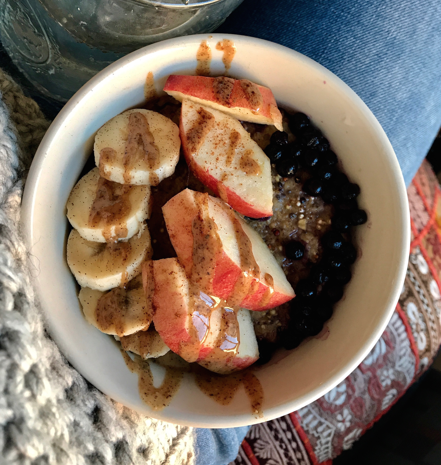 A bowl of vegan oatmeal, with blueberries, apples, banana and almond butter.